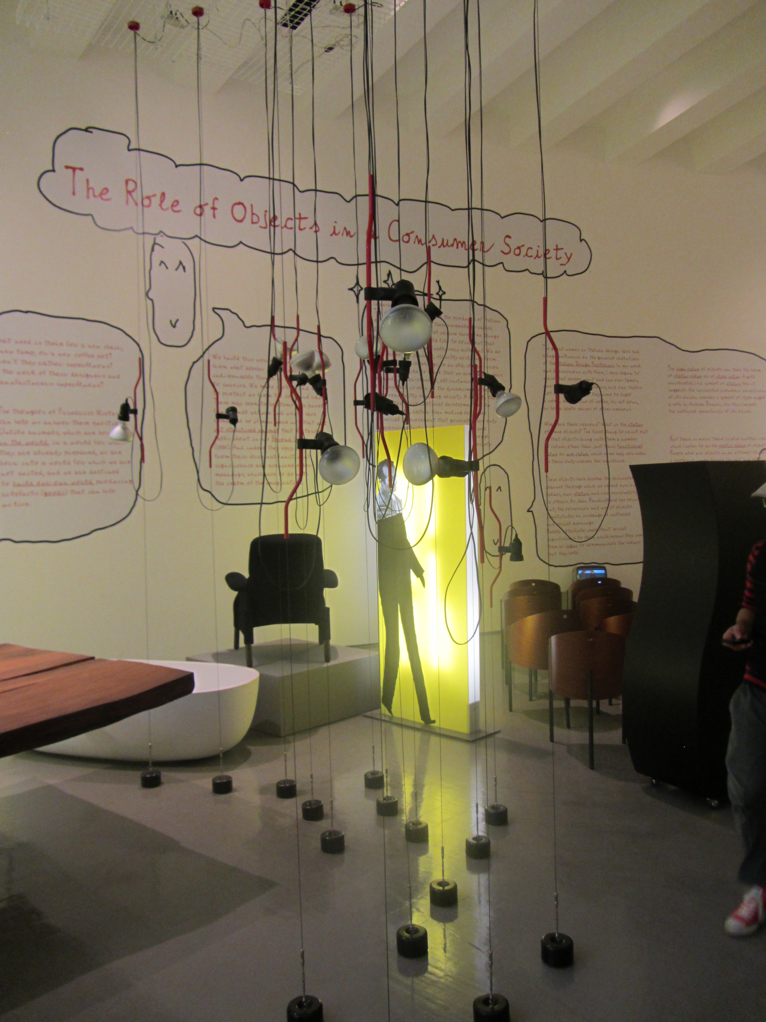 Parentesi, Lamp designed by Achille Castiglioni and Pio Manzù for FLOS (1971). Photo made at Triennale Design Museum of Milan (free photo day )